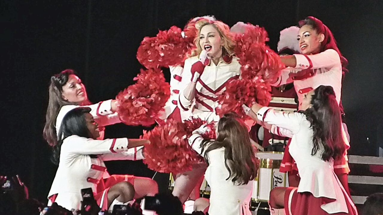 MDNA Tour, Córdoba, Argentina